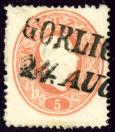 Austrian KK stamp issue III, linear cancelled at GORLICE (Galicia, Poland), Mueller type RL-I (2 letterings)